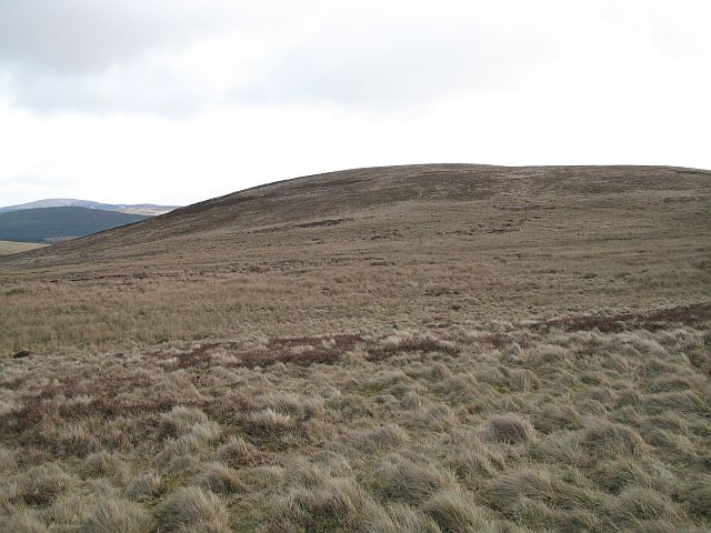 Meall Beag, west of Auchinleish, height 139m